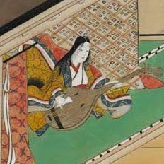 A portrait of Princess Mikushige-dono, high-ranking lady-in-wainting for Empress Kishi and consort of Prince Takayoshi, the first son of Emperor Go-Daigo. From Ehon Shinkyoku. Owned by Meisei University.